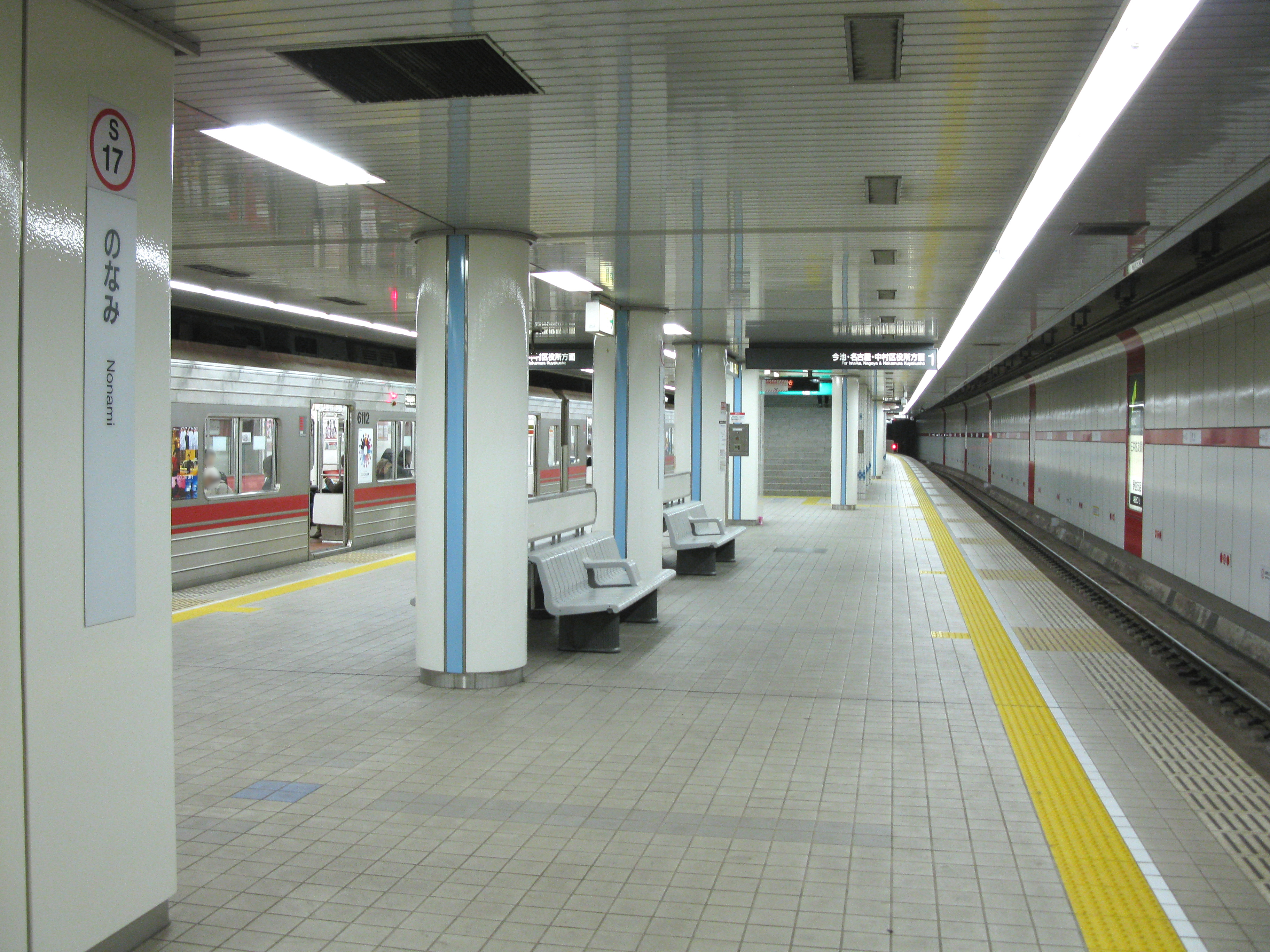 Nonami Station platform (Nagoya Municipal Subway Sakura-dōri Line)